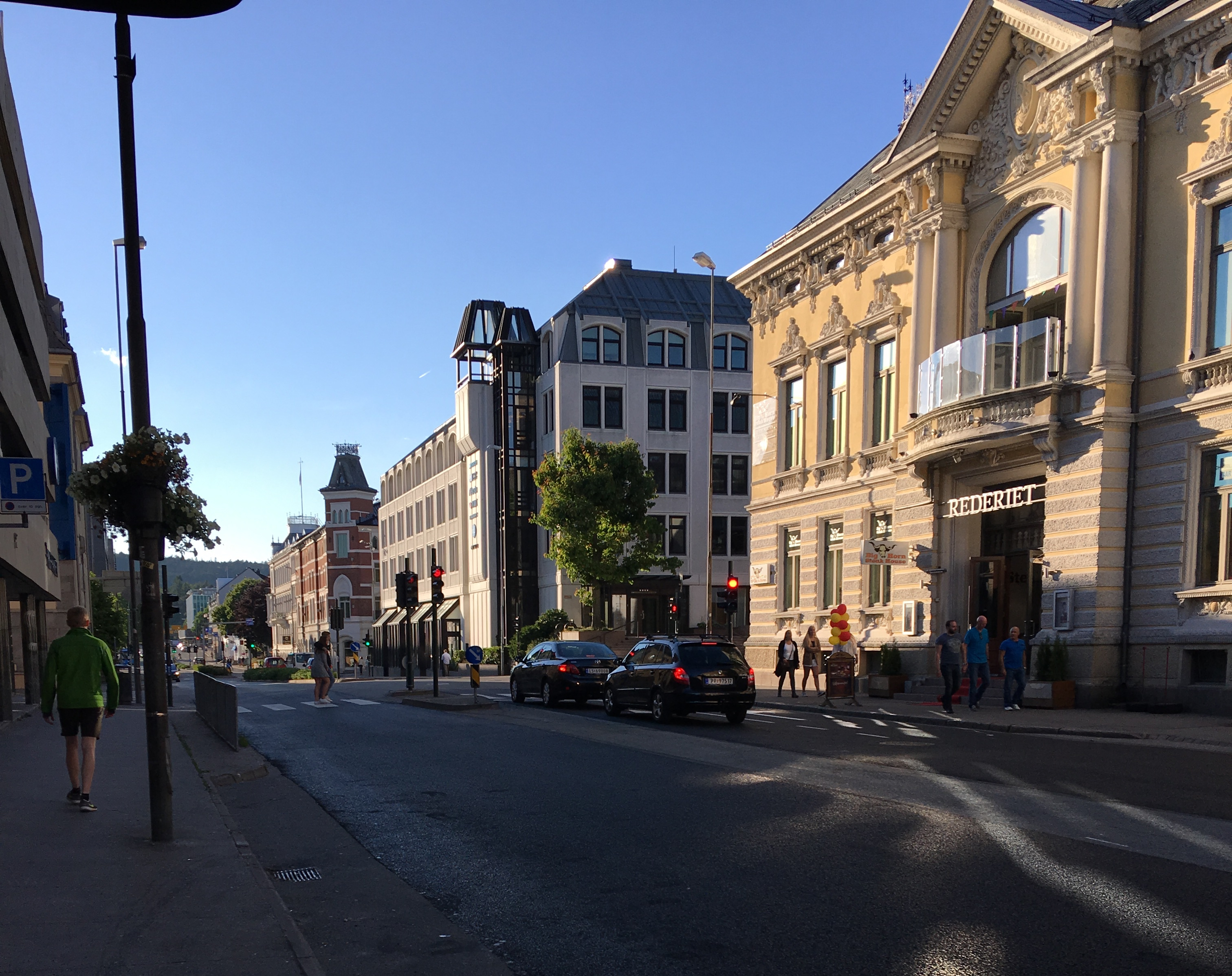 Vestre Strandgate, Kristiansand